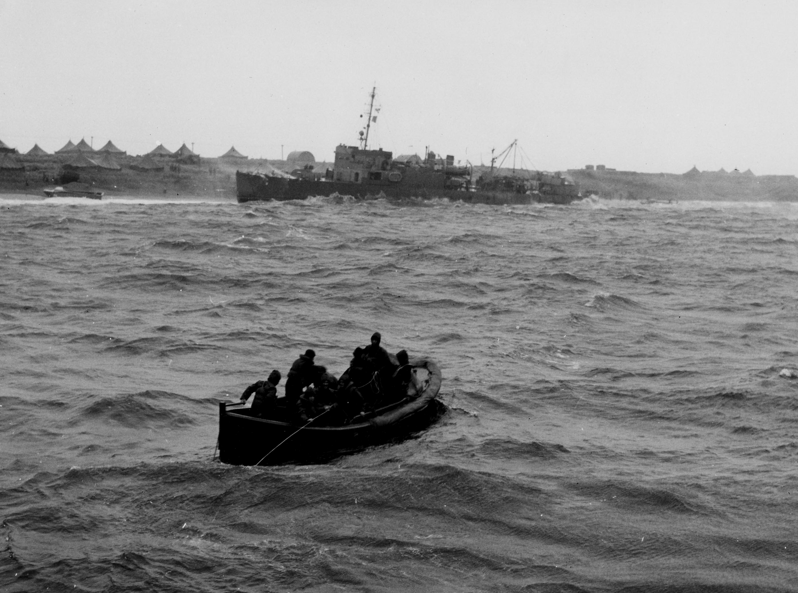 The U.S. Navy seaplane tender USS Hulbert (AVD-6) after having been blown ashore in Massacre Bay, Attu, Alaska (USA), during a severe storm on 30 June 1943. Hulbert´s hull was seriously damaged. she was towed free and received temporary repairs at Dutch Harbor, before receiving a major overhaul at Bremerton, Washington, starting on 30 August 1943. After her overhaul she was reclassified as destroyer DD-342 on 1 December 1943, her original hull number.